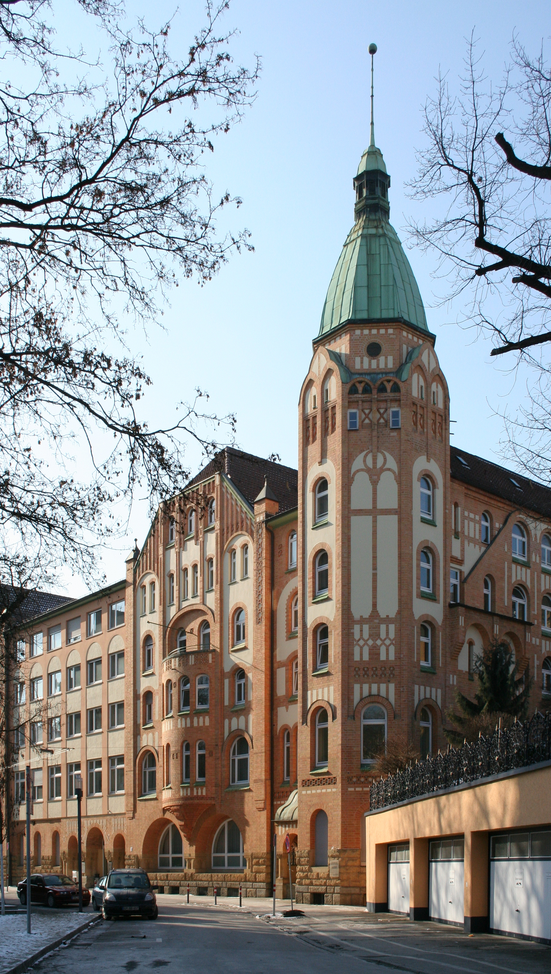 Ford brook hospital (former meeting house of the Christian association of young men) in Stuttgart. The building used today as psychiatric clinic was built by Heinrich Dolmetsch from 1902 to 1907 in the Jugendstil. Town district the Stuttgart south, Baden-Wurttemberg, Germany.